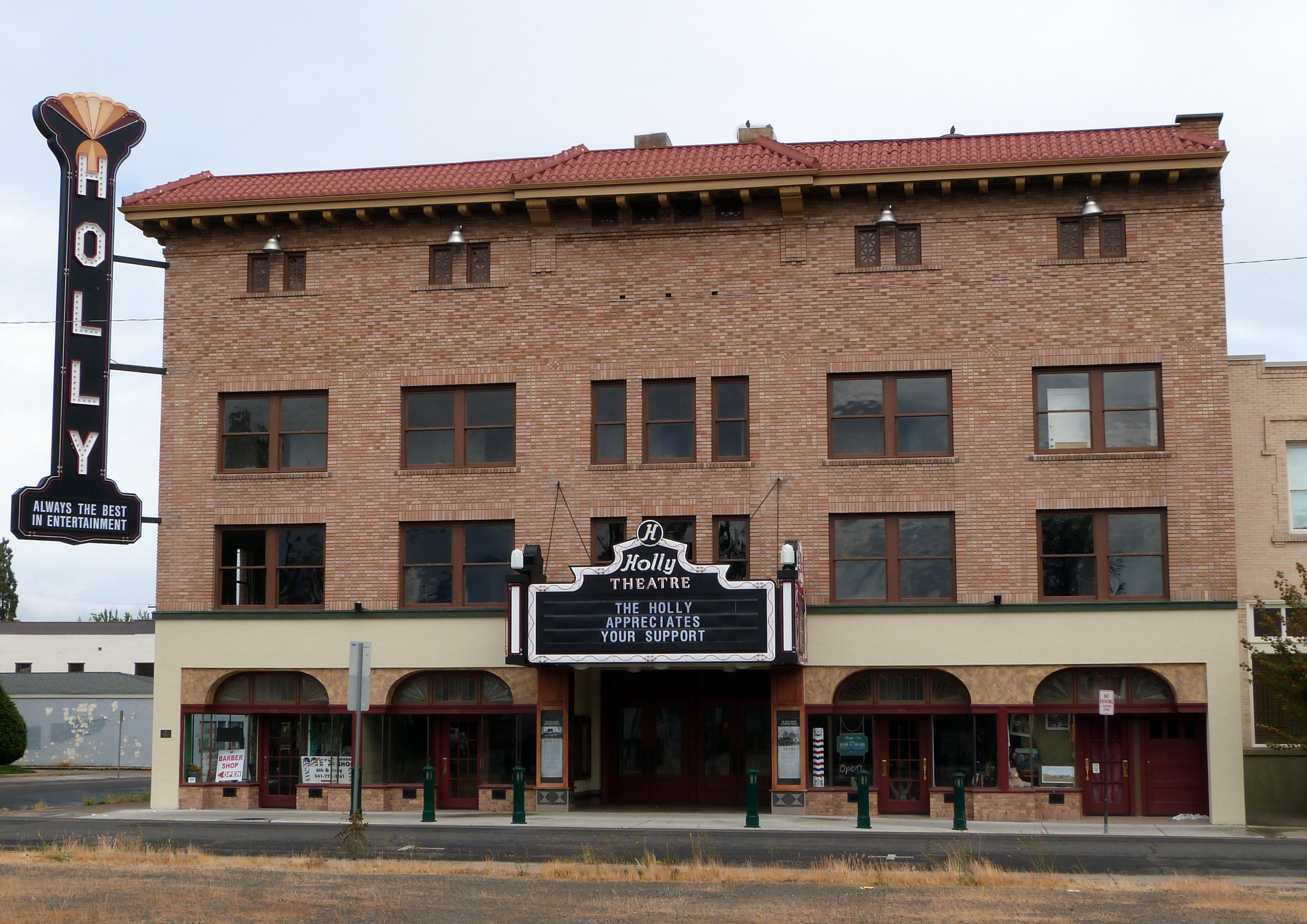 The historic Holly Theatre (built 1930), located at 226 West 6th Street in Medford, Oregon, United States, is listed as a contributing resource in the Medford Downtown Historic District. The historic district is listed on the US National Register of Historic Places.